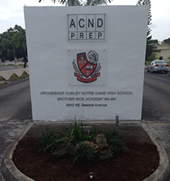 Newly built and dedicated school entrance from the classes of 1982 and 1983.